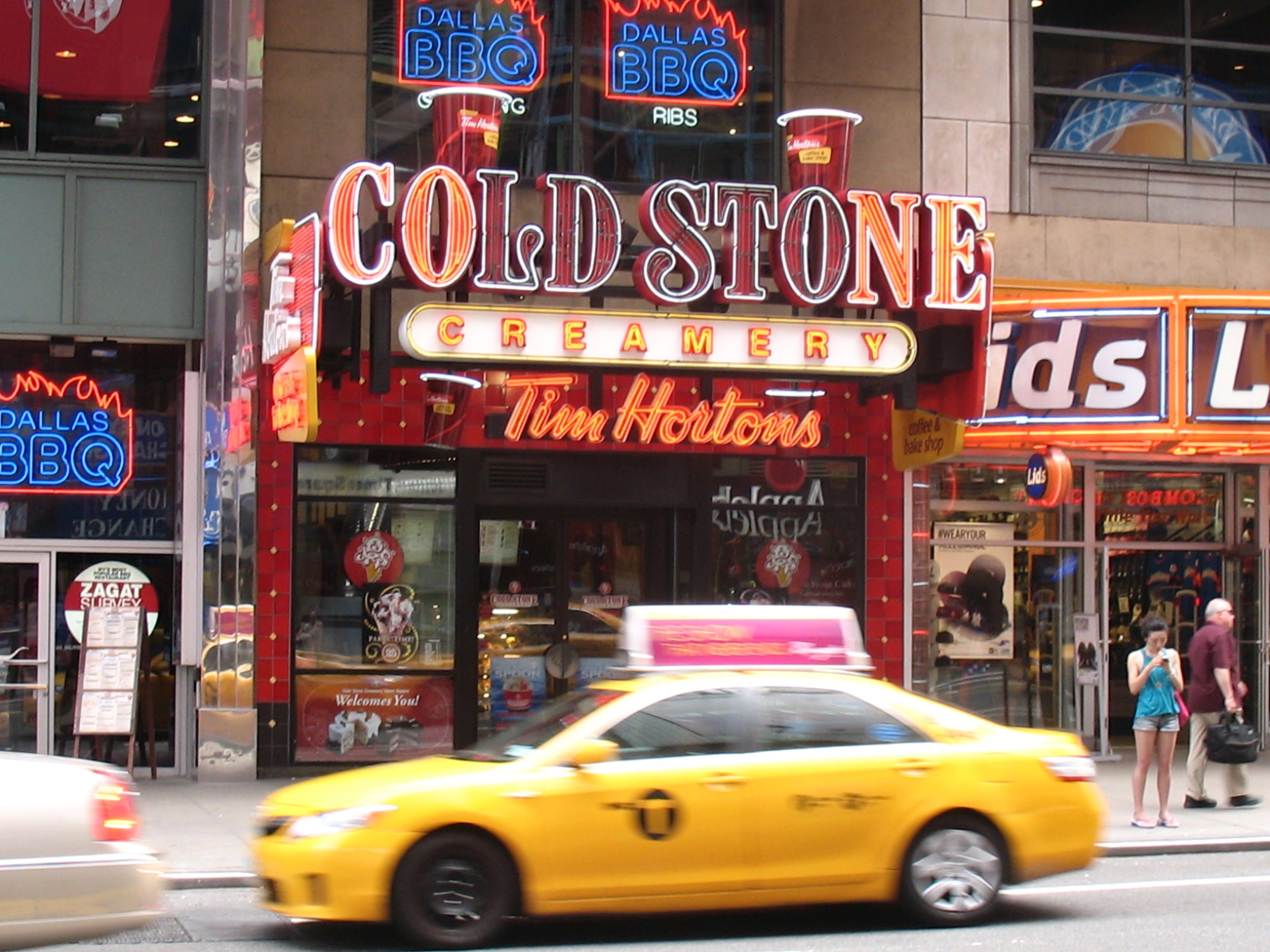 Tim Hortons, 42nd Street, New York